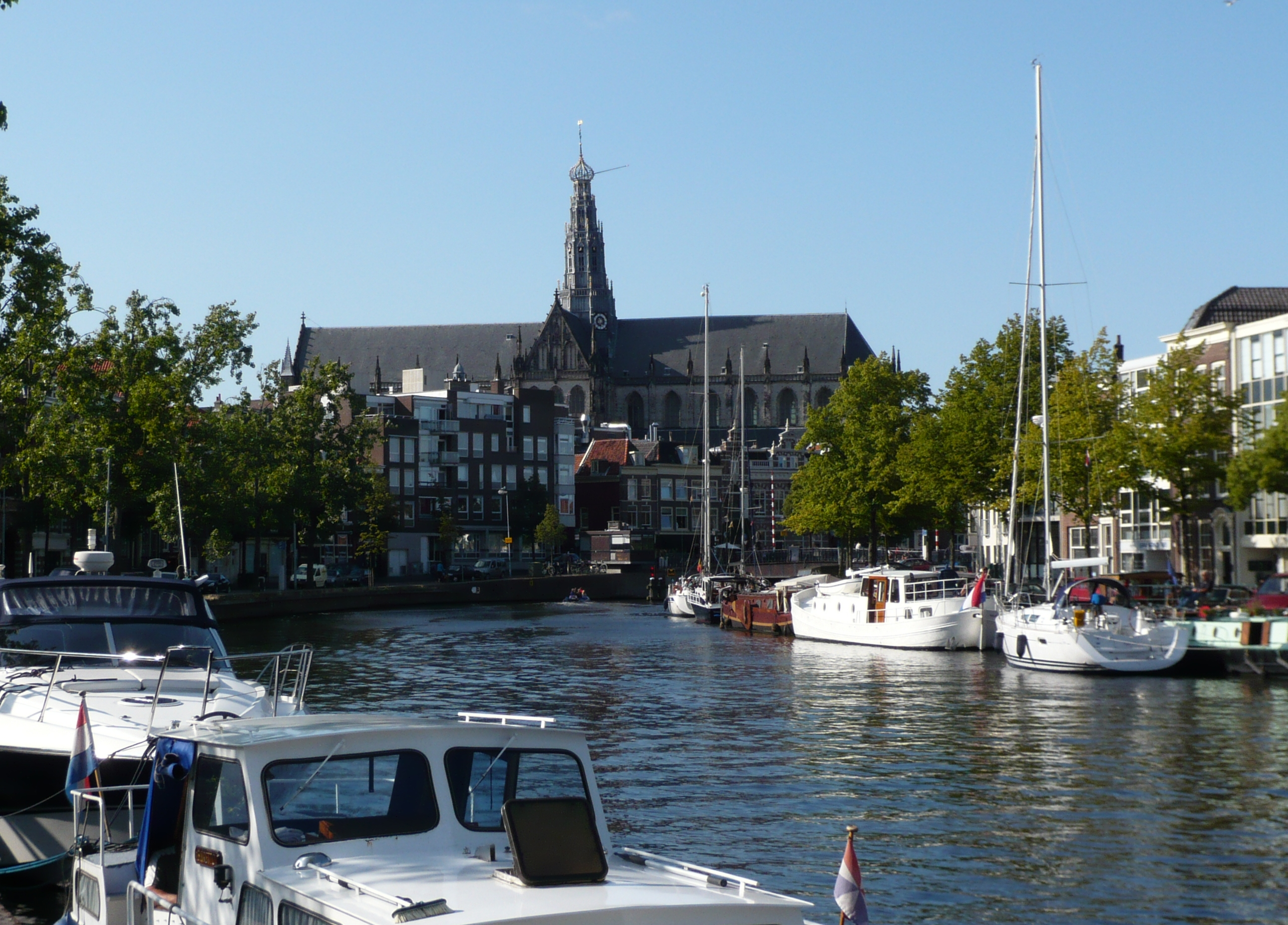 View of Haarlem Sint-Bavokerk from the south (Turfmarkt), looking over the Spaarne river.